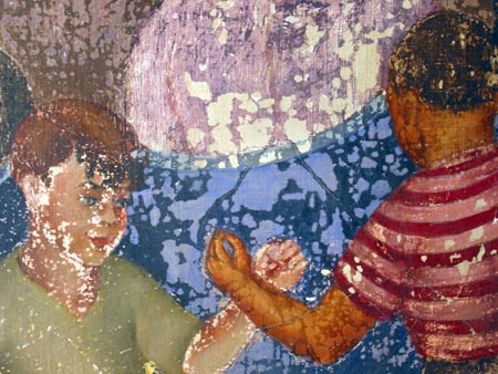 Detail of 'Recreation in Harlem', a mural executed at Harlem Hospital Center in New York City in 1936 by Georgette Seabrooke and restored in 2012.